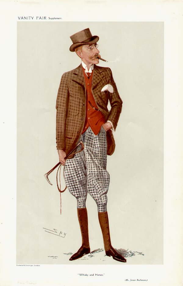 Men of the Day No.1093: Caricature of Mr James Buchanan. Caption reads: "Whisky and Horses"